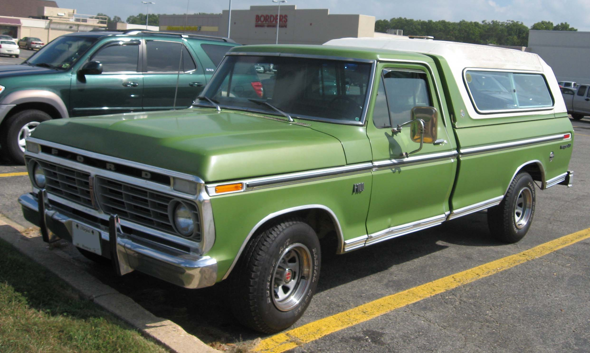 1973-1975 Ford F-100 photographed in Waldorf, Maryland, USA.